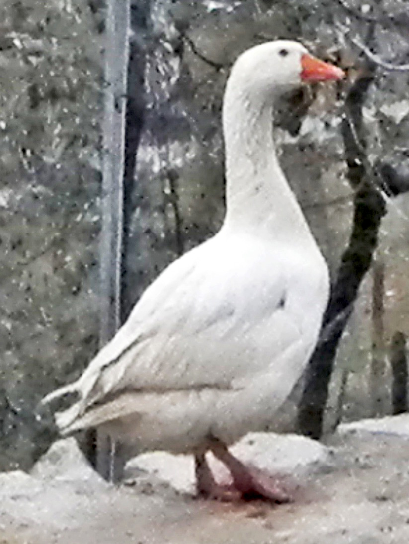 Italian goose